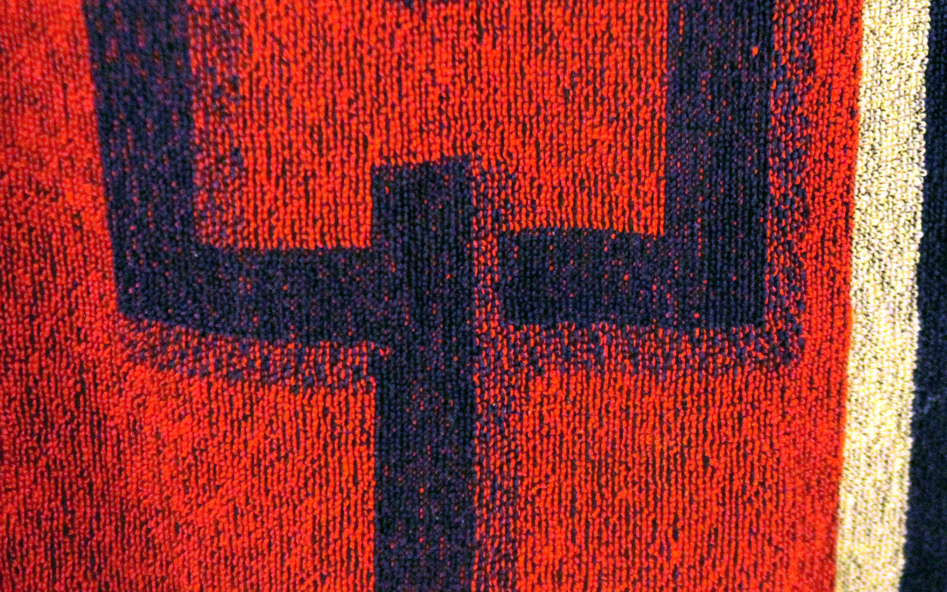 Color dithering on a towel used to obtain a brighter shade of blue using a red thread.